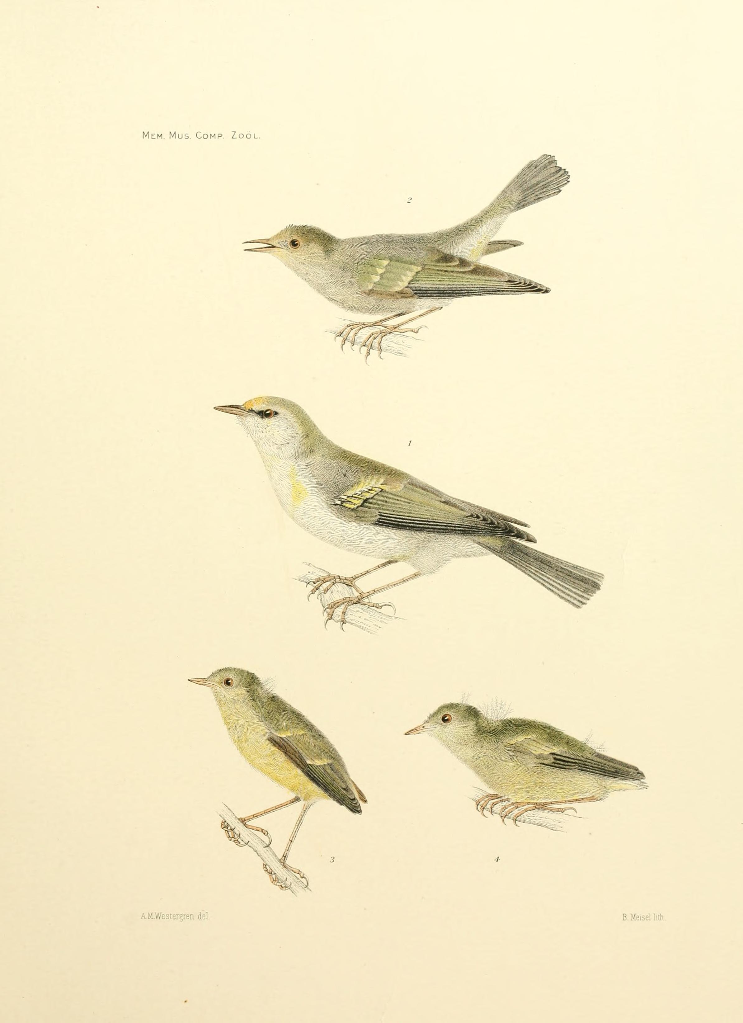 Brewster's warbler / by Walter Faxon.